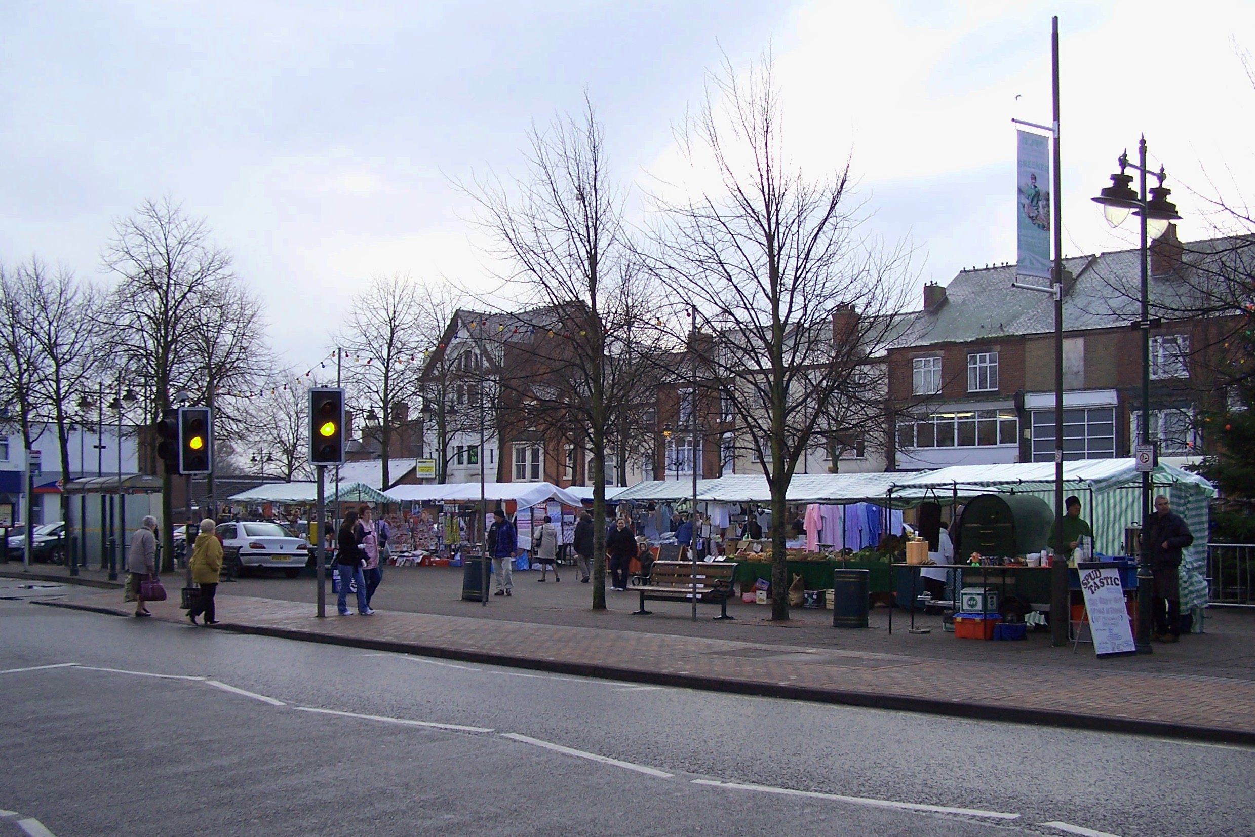 The Market Place at Heanor Derbyshire. Photo by Russ Hamer